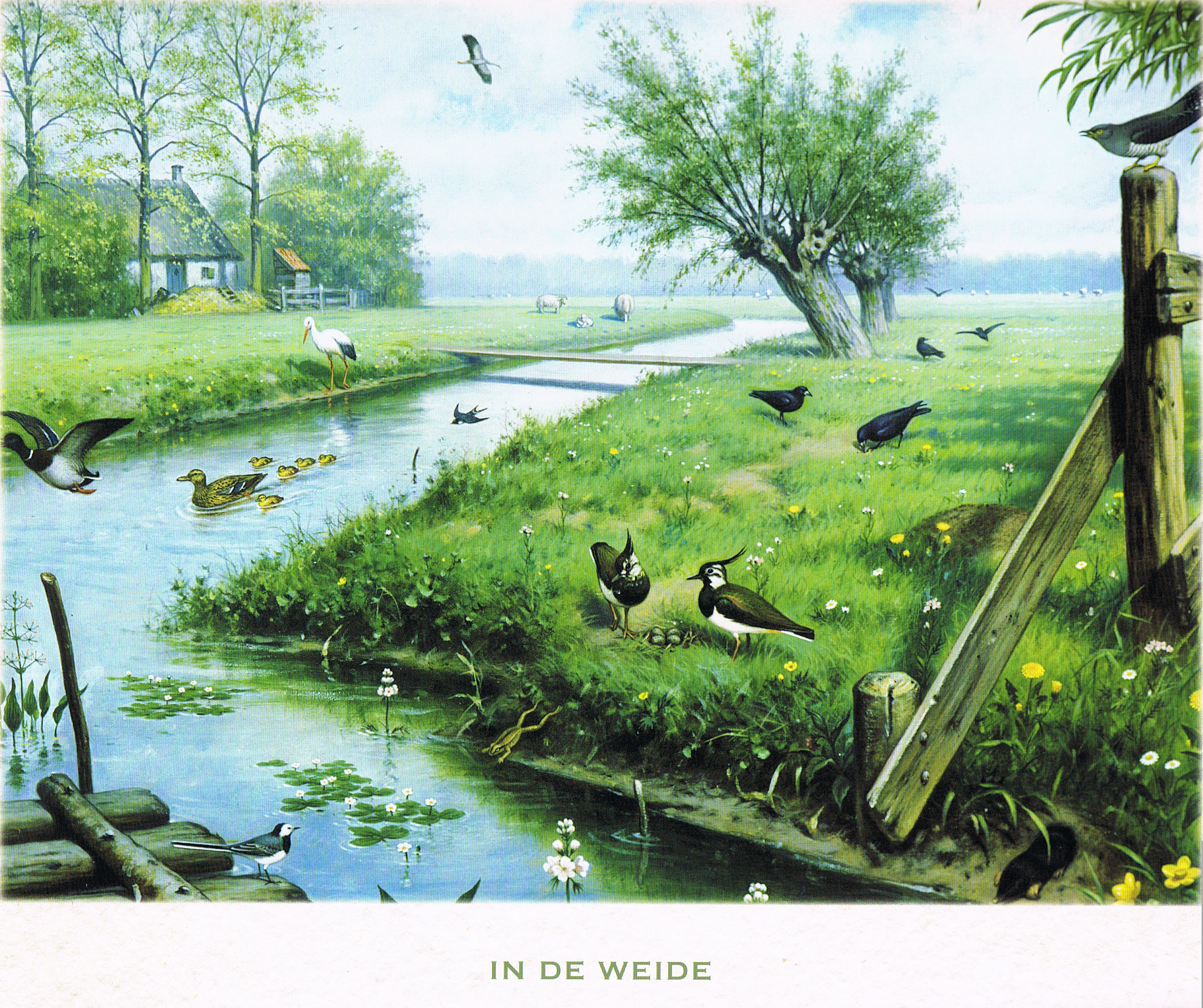 Painting of a typical dutch meadow by Marinus Adrianus Koekkoek